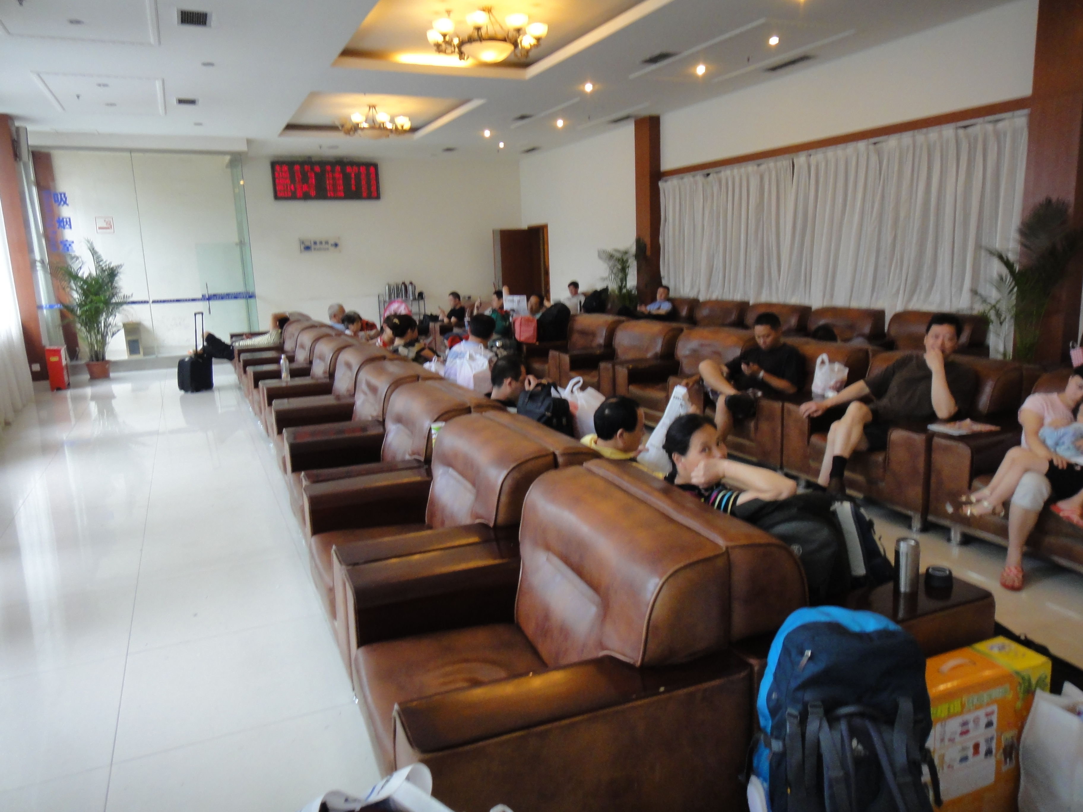 Soft Seat Waiting Area 2, for purchasers of Soft Seat/Soft Sleeper Train Tickets